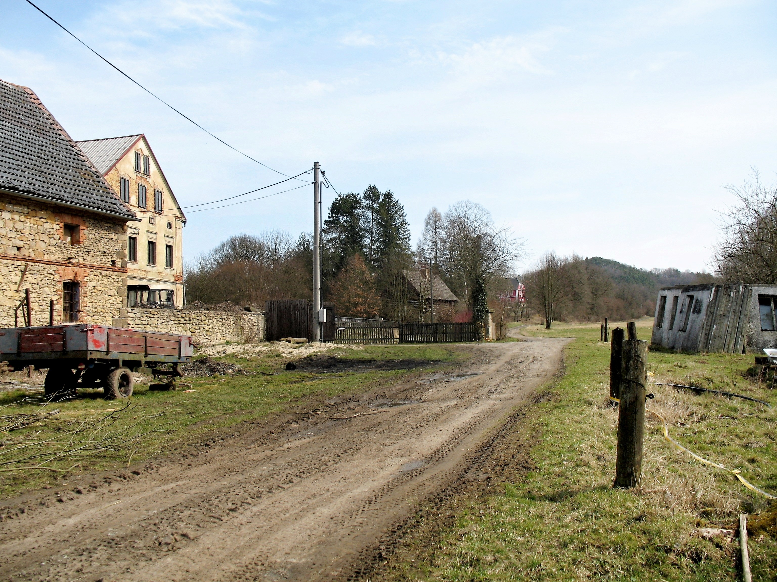 Šváby Village, Česká Lípa District, Northern Bohemia